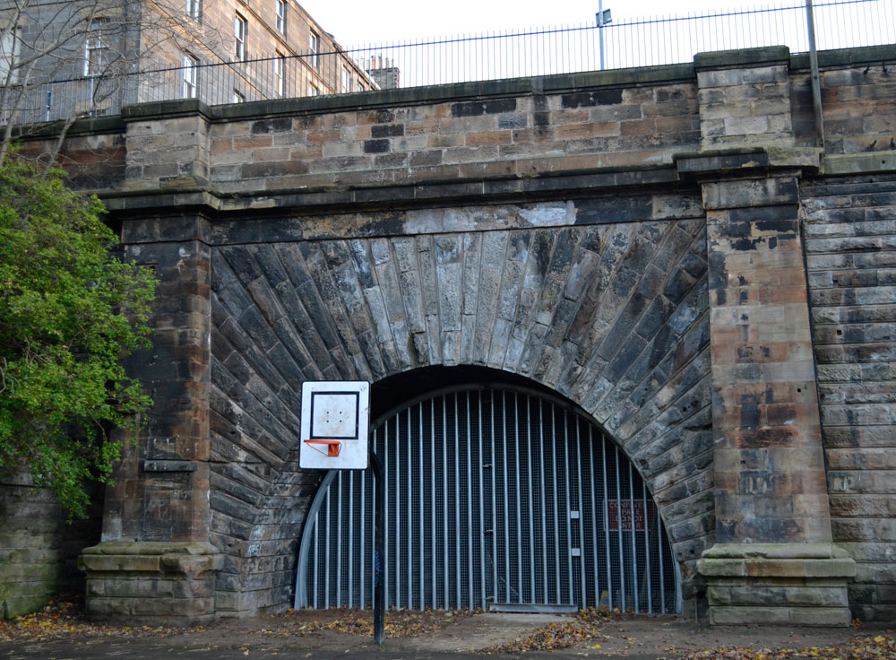 Former entrance to Scotland Street tunnel, Edinburgh, Scotland, now part of a children's play park.